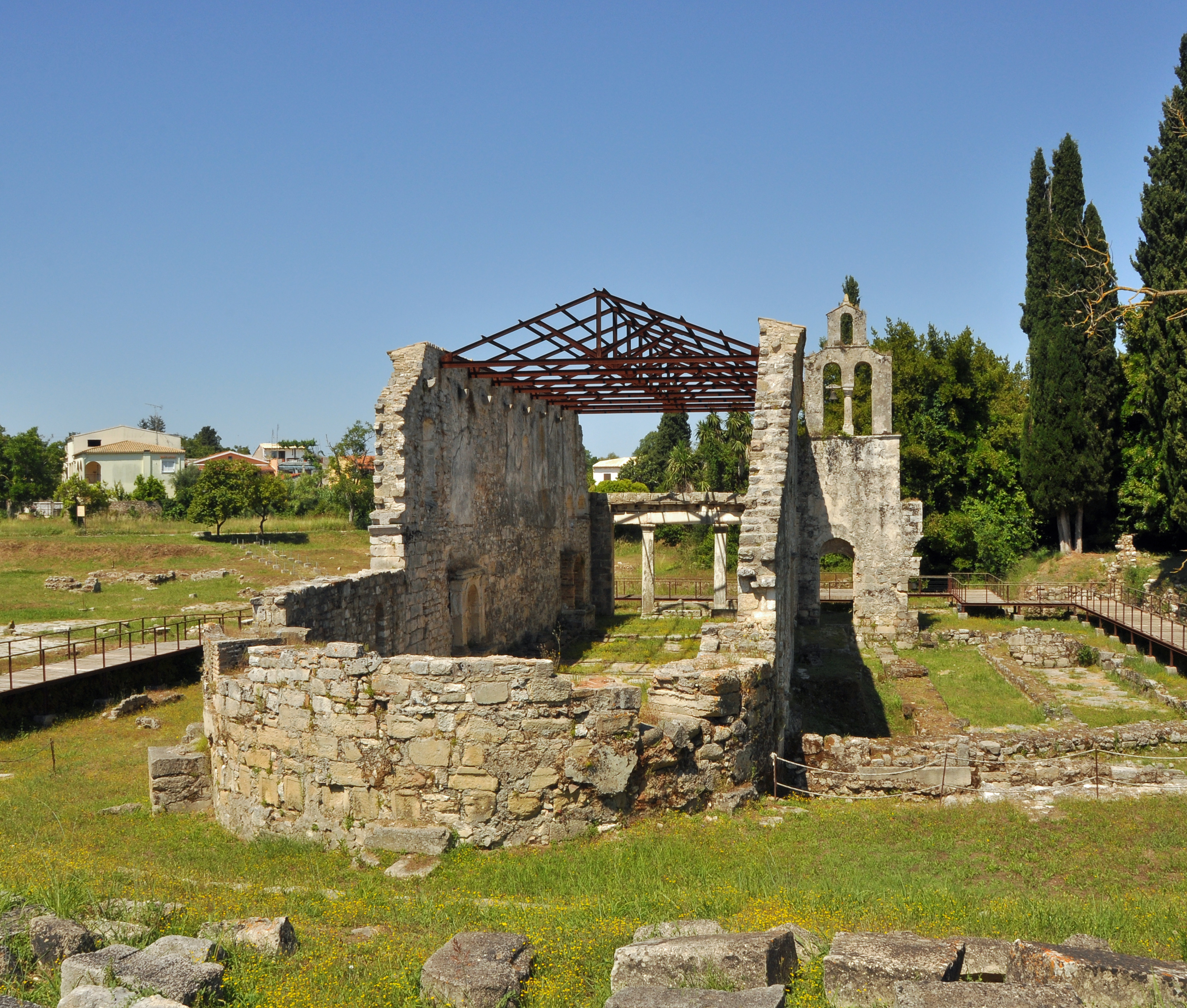 Corfu (Greece): ruins of Agia Kerkyra church or Paleopoli Basilica